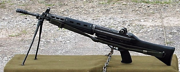 Type 89 Assault Rifle, JGSDF, Japan, Sep.2005 89式5.56mm小銃、陸上自衛隊、日本 2005年9月撮影 Photographer ほくなん; this work is in PD